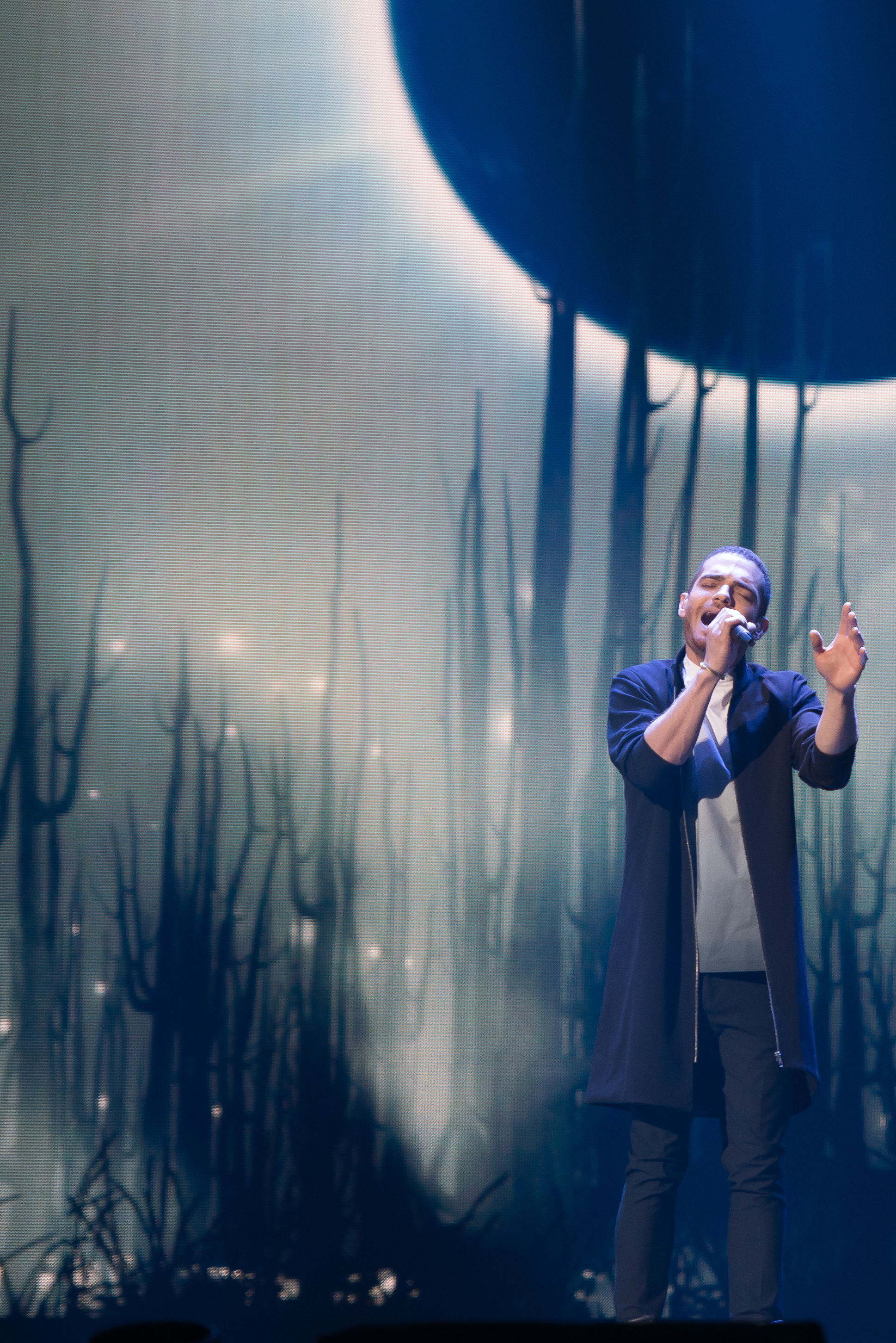 Eurovision Song Contest Vienna 2015: Elnur Huseynov